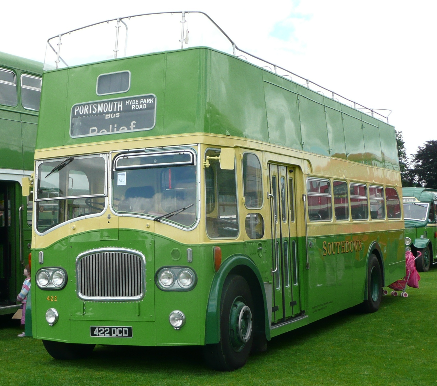 A now preserved Leyland Titan, previously run by Southdown Motor Services, at the 2008 Alton Bus Rally.